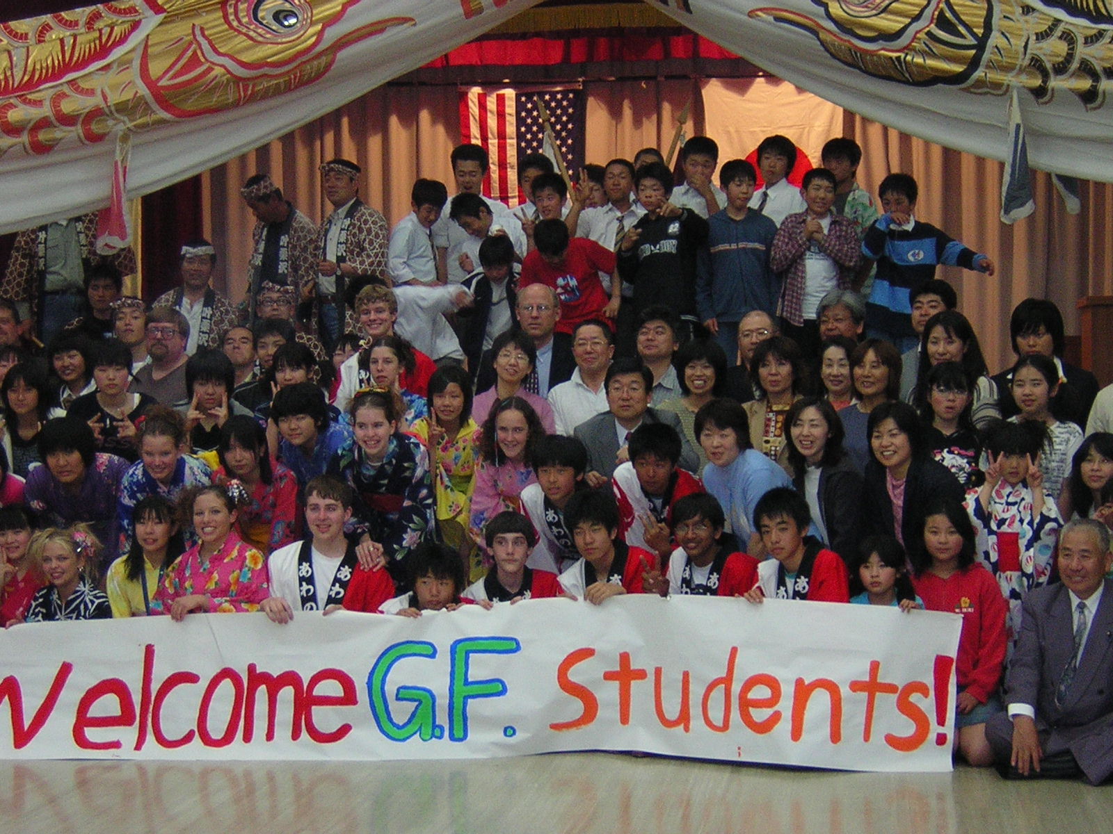 This photo was taken at a welcoming ceremony for American students in Awano, Japan.